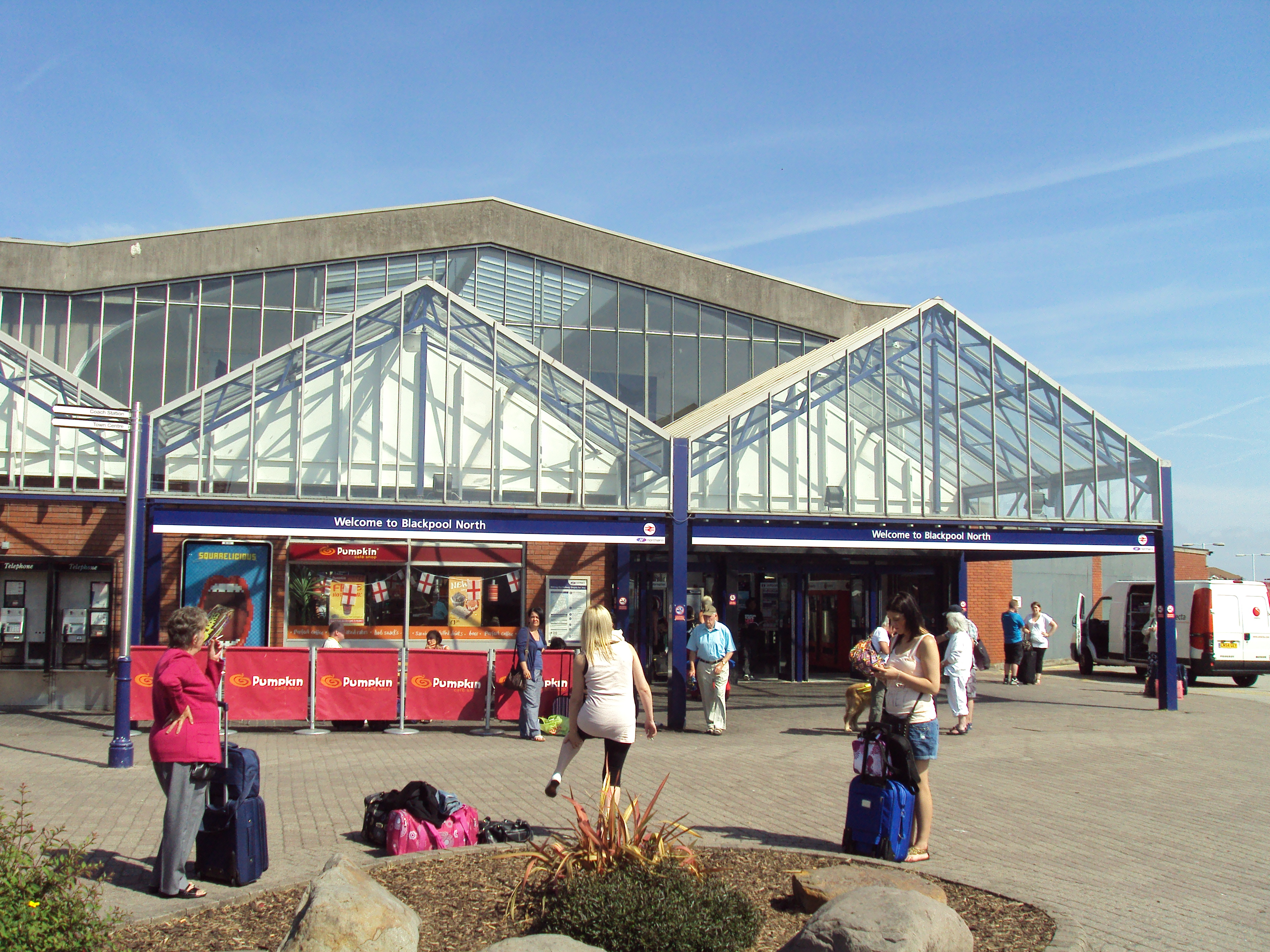 Entrance to Blackpool North railway station, Lancashire, England.